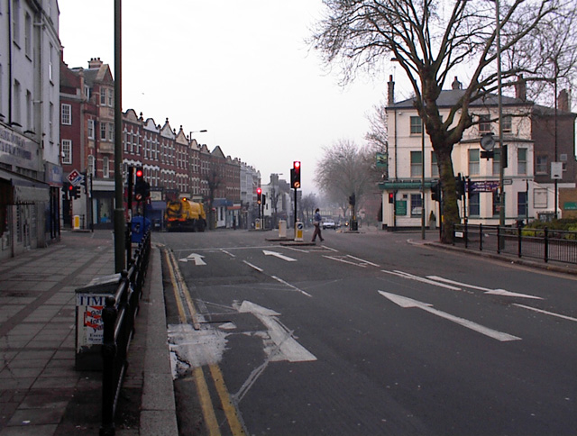 East Finchley. The Bald Faced Stag pub sits at the right on the junction, and East Finchley tube station is in the distance. Looking south across the major road junction in the grid square.